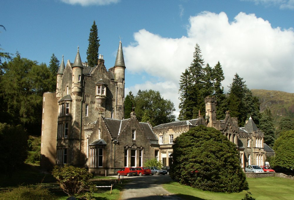 Benmore Botanic Garden - Scotand